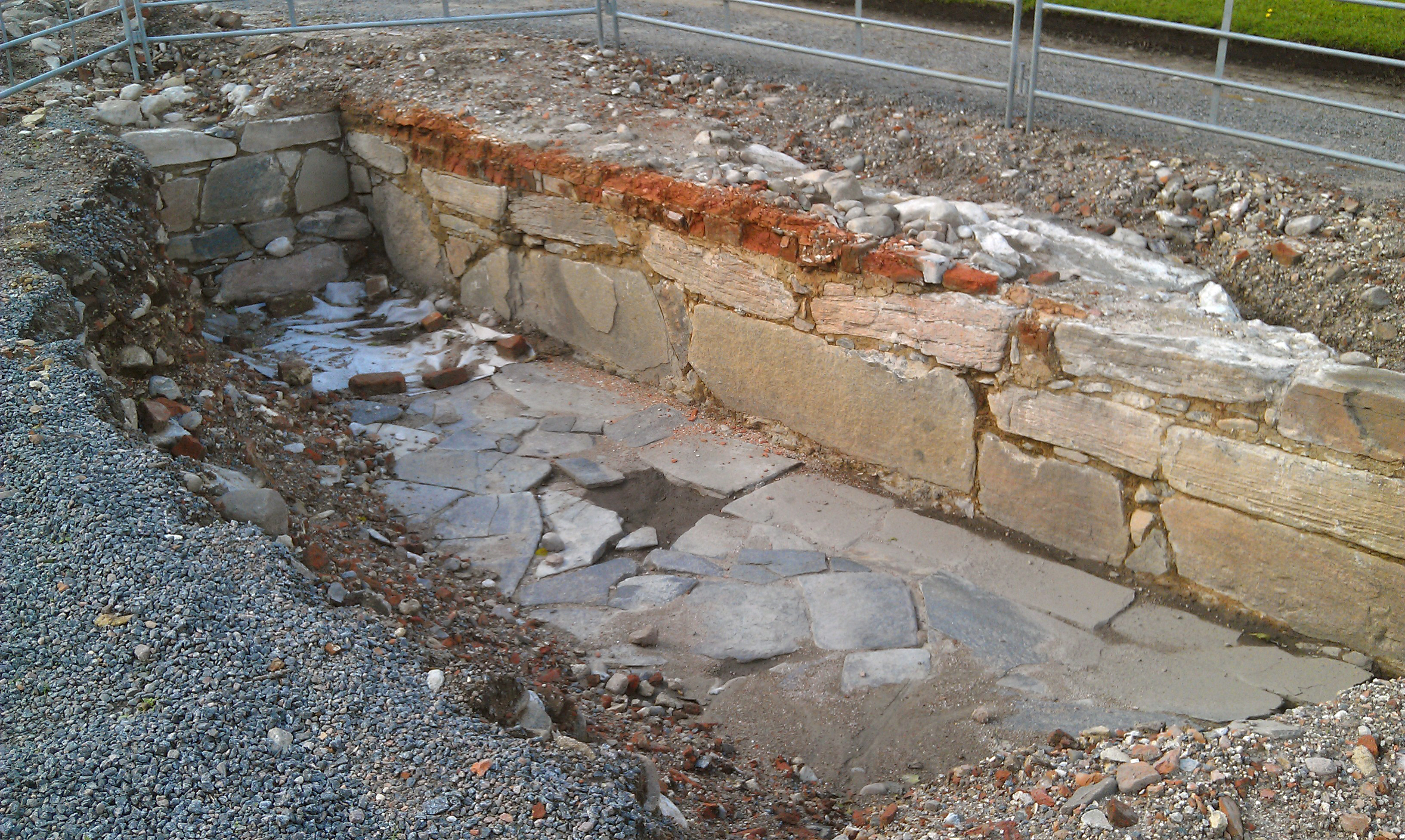 The excavation of Ås kloster (Ås Abbey) in Åskloster, Halland, Sweden.